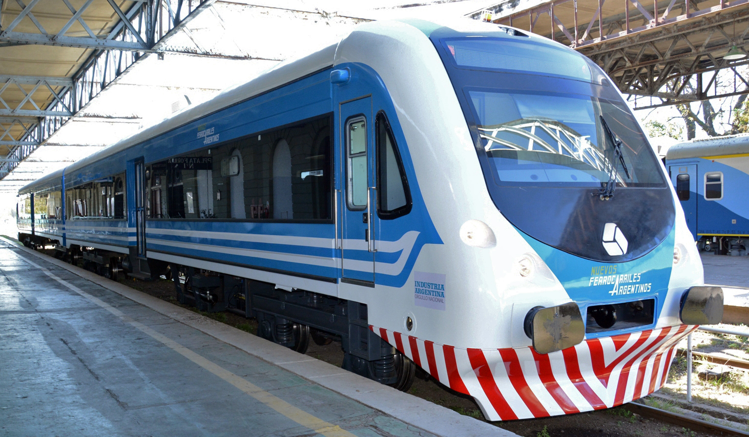 A Ferrocarriles Argentinos Materfer CMM 400-2 DMU at Neuquén railway station